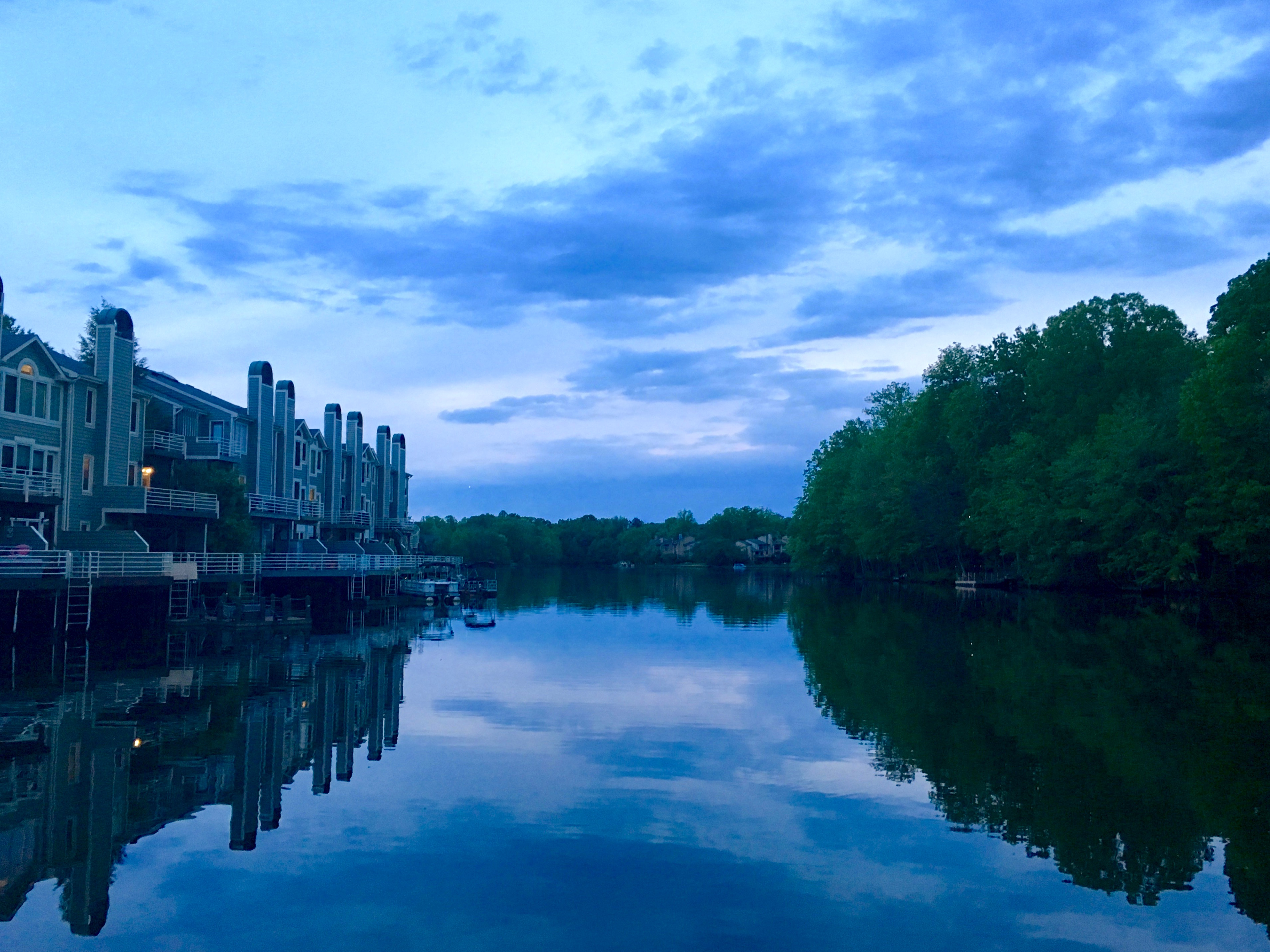 Lake Thoreau shoreline at sunset, looking south